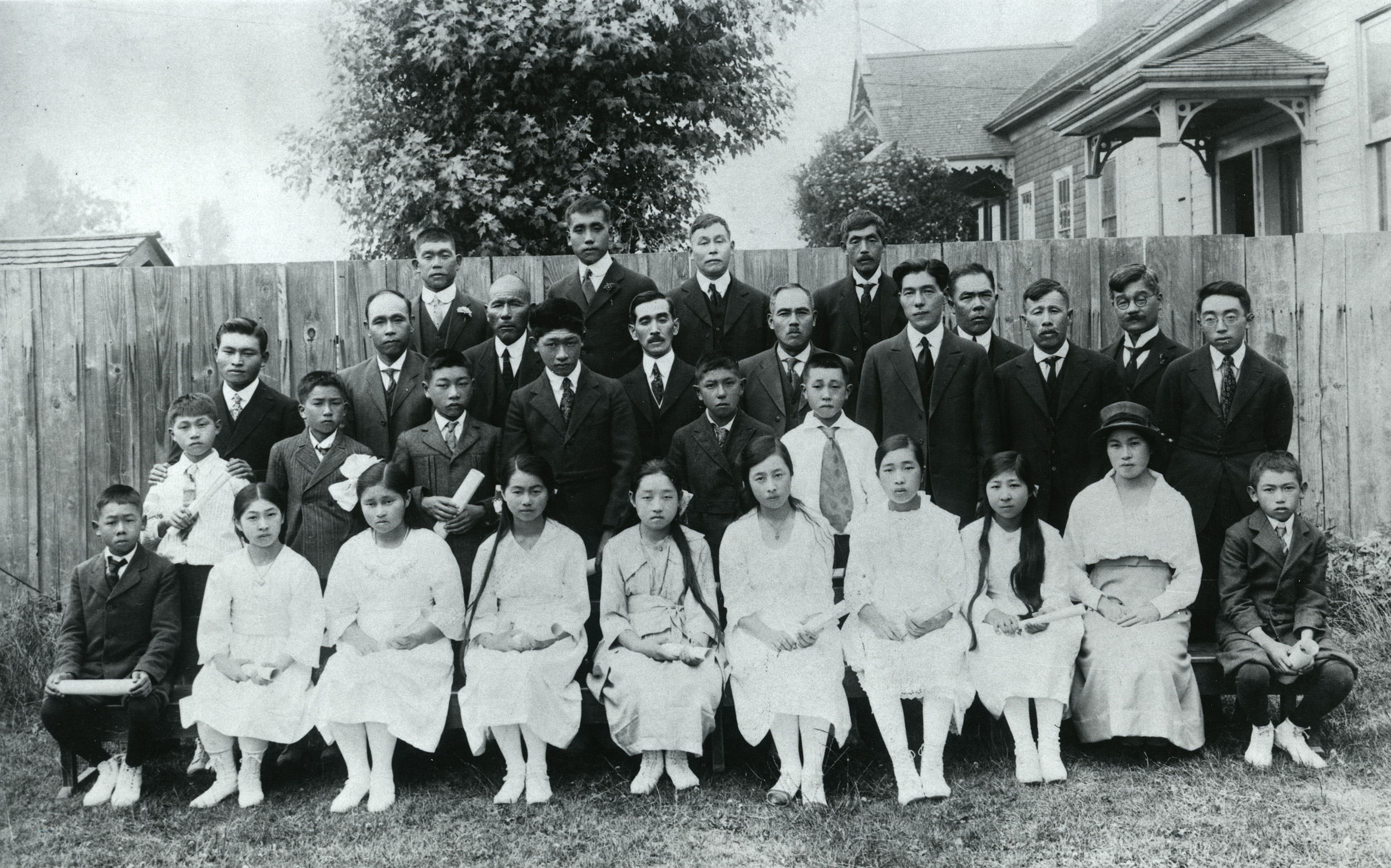 Reminder: No known copyright restrictions. Please credit UBC Library as the image source. For more information see Date: 1924 Access Identifier: JCPC_ 19_010 Source: Original Format: University of British Columbia Library. Rare Books are Special Collections. Japanese Canadian Research Collection. JCPC_ 19_010 Permanent URL